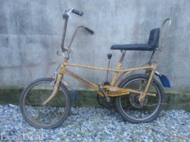 Tri-ang Unity Dragster TT for Restoration in 2016, over 45 years old, very original, bicycle in Dublin Ireland